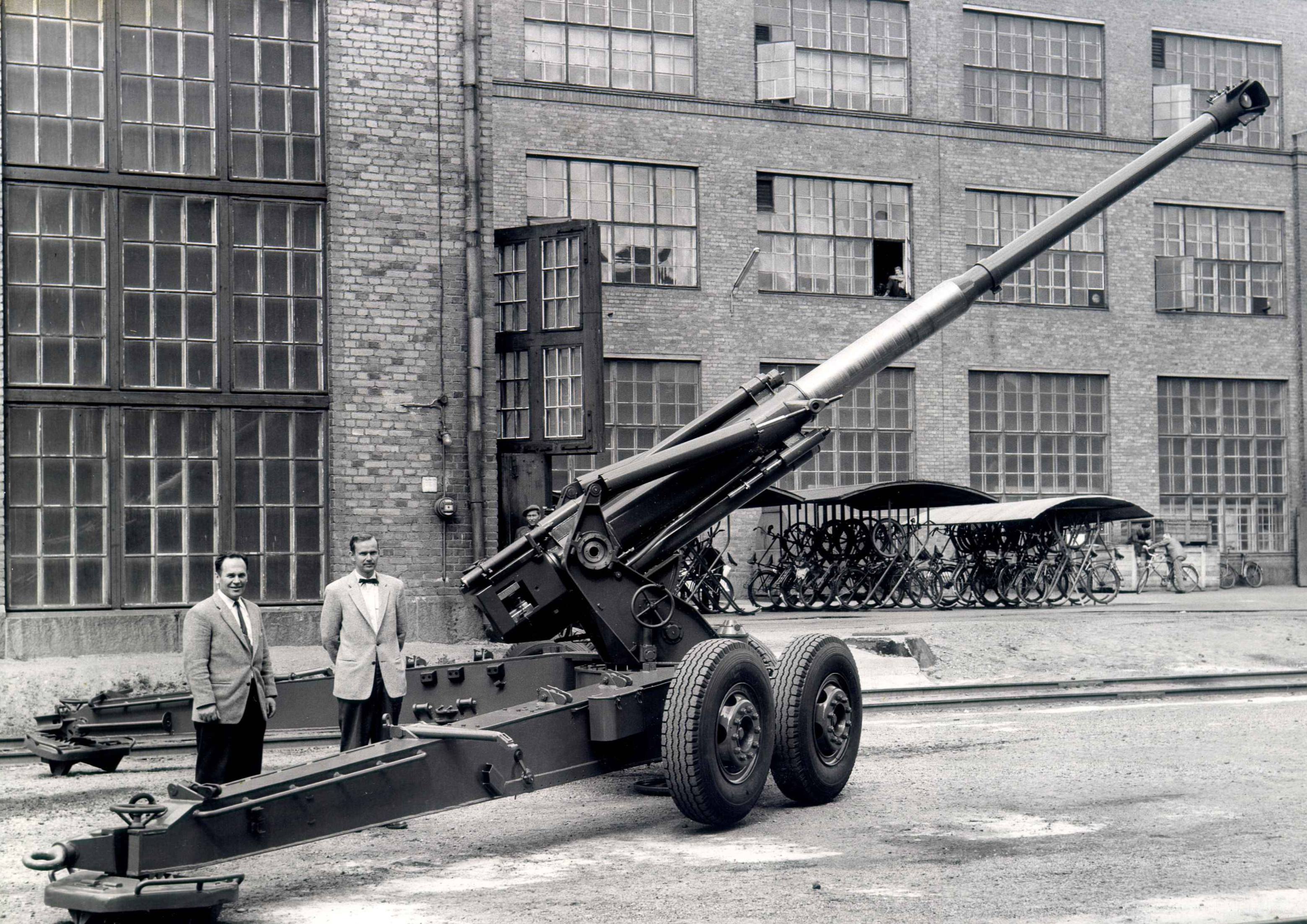 Tampella head designer Heikki Collanus and Finnish Defence Forces representative Capt. Eino Vuorimies pose next to a brand new Tampella 122 K 60 field gun, a first of its kind (serial number 001), at Tampella factory yard, on the 24th of June 1960.